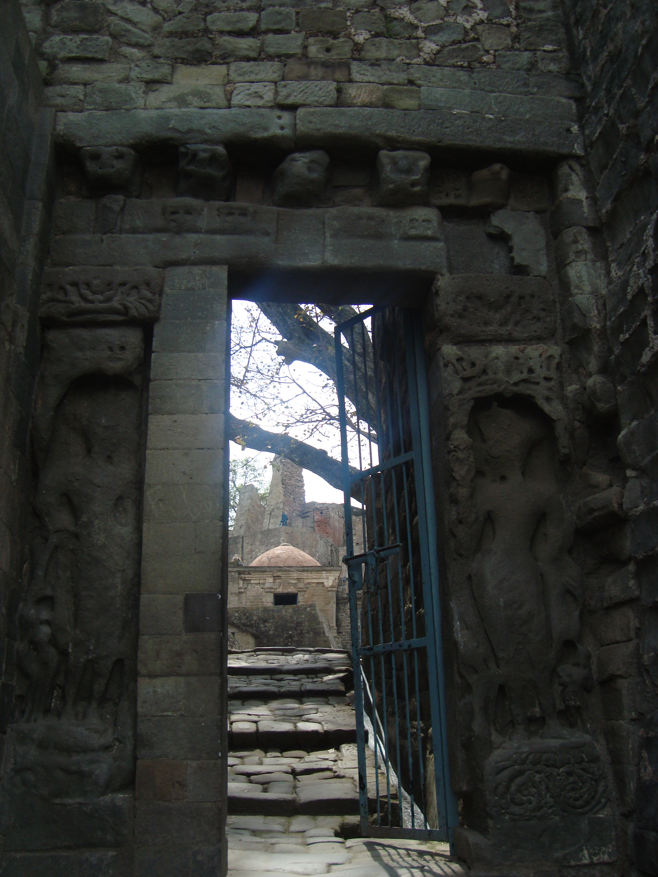 Darshani Gate, Kangra Fort - closer